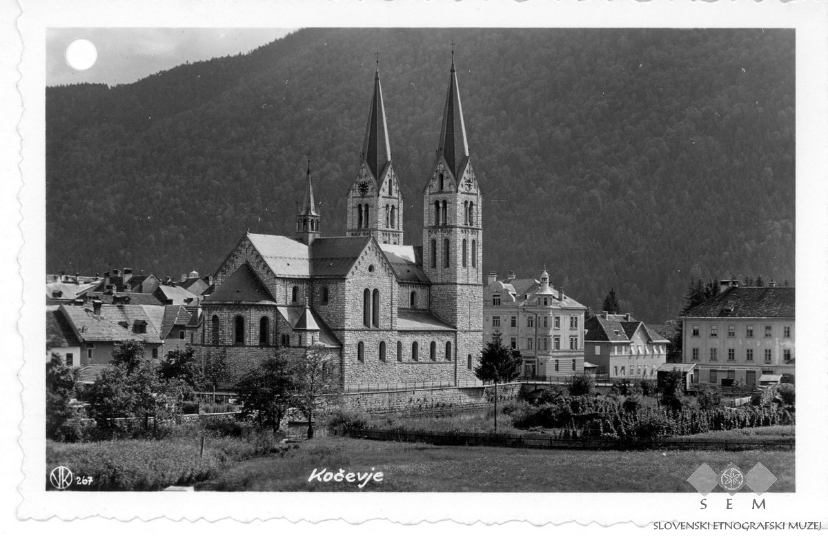 Postcard of Kočevje